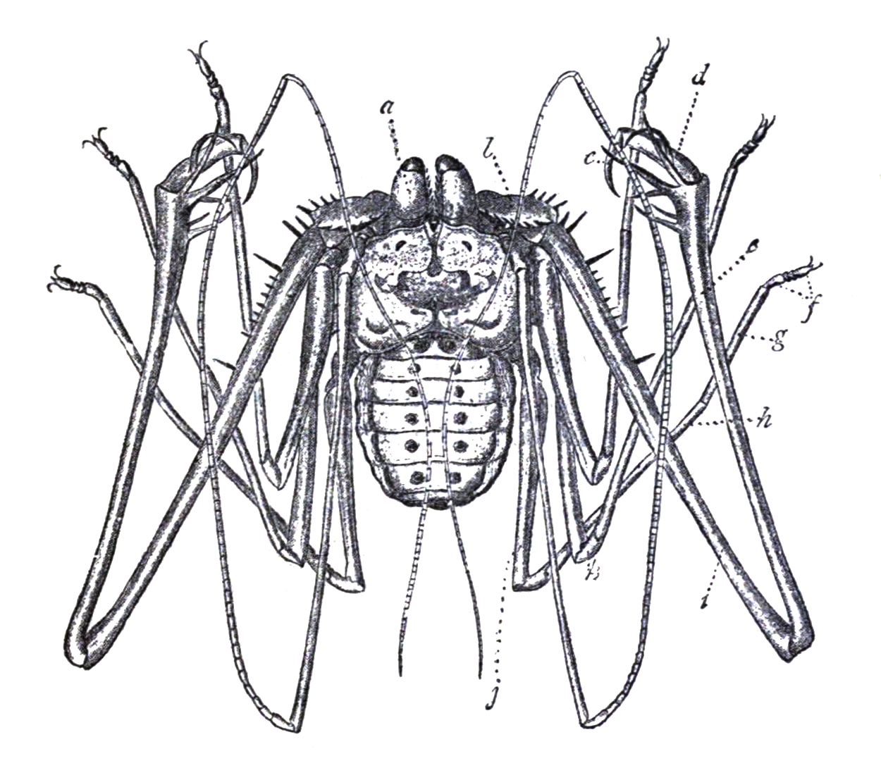 A male specimen of tailless whip scorpion Phrynichus phipsoni (Arachnida: Amblypygi). a — mandible, l — trochanter, i — femur, e — tibia, d — hand, c — claw of chela, j — femur, k — patella, g — protarsus, f — tarsus of leg.